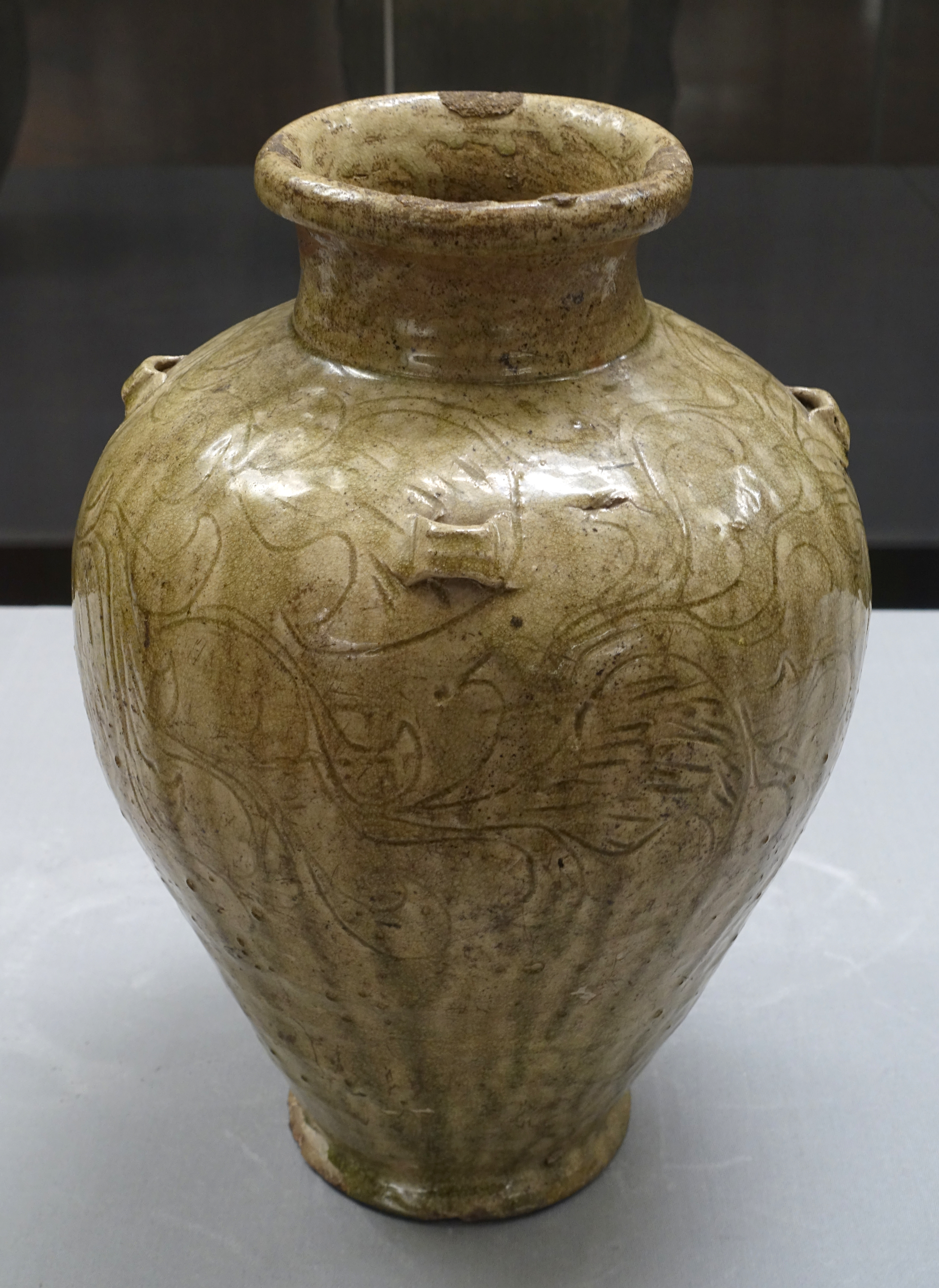 Exhibit in the Tokyo National Museum - Tokyo, Japan.